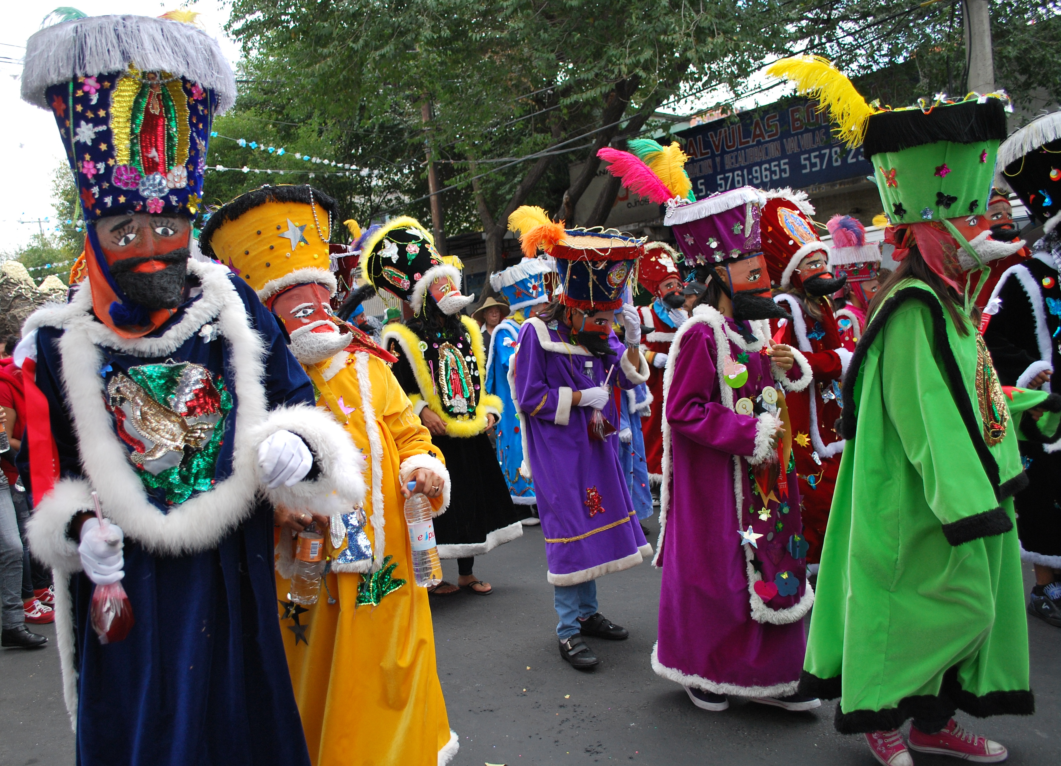 Chinelos dancers at the 2011 Feast of the Virgin of San Juan de los Lagos in Colonia Doctores, Mexico City